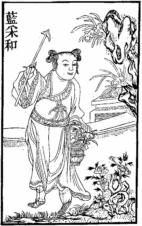 Ancient woodcut of Lan Caihe, one of the Eight Immortals of Chinese mythology. His sex and age are unknown. He is usually portrayed as an effeminate boy or as a hermaphrodite.